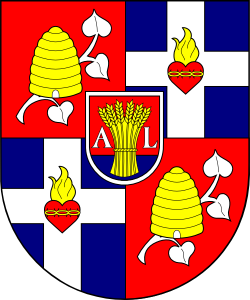 Coat of arms (shield only) of Ambróz Lazík, apostolic administrator of Trnava, Slovakia (1947 - 1969)